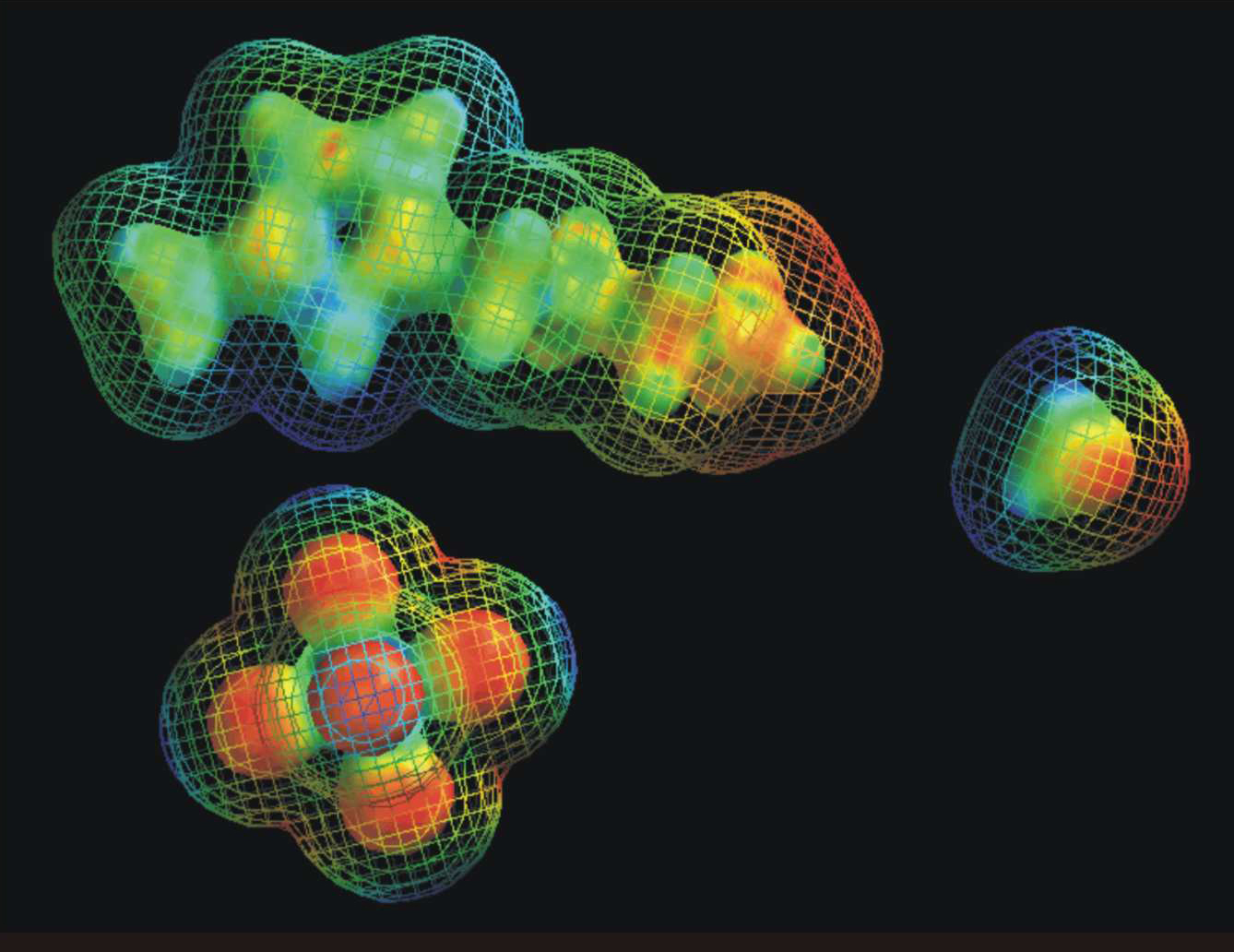 Molecular "space filling" models demonstrate the difference in size for the positively charged "cation" (top image) and the negatively charged "anion" (bottom left) that combine to form a promising ionic liquid. It is still a mystery how the much smaller water molecule (right) can have such a large effect on the viscosity of such ionic liquids. Credit: NIST Disclaimer: Any mention of commercial products within NIST web pages is for information only; it does not imply recommendation or endorsement by NIST. Use of NIST Information: These World Wide Web pages are provided as a public service by the National Institute of Standards and Technology (NIST). With the exception of material marked as copyrighted, information presented on these pages is considered public information and may be distributed or copied. Use of appropriate byline/photo/image credits is requested.